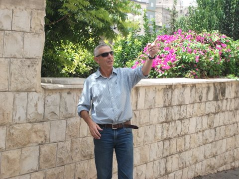 Amnon Goffer - Rosh Pina